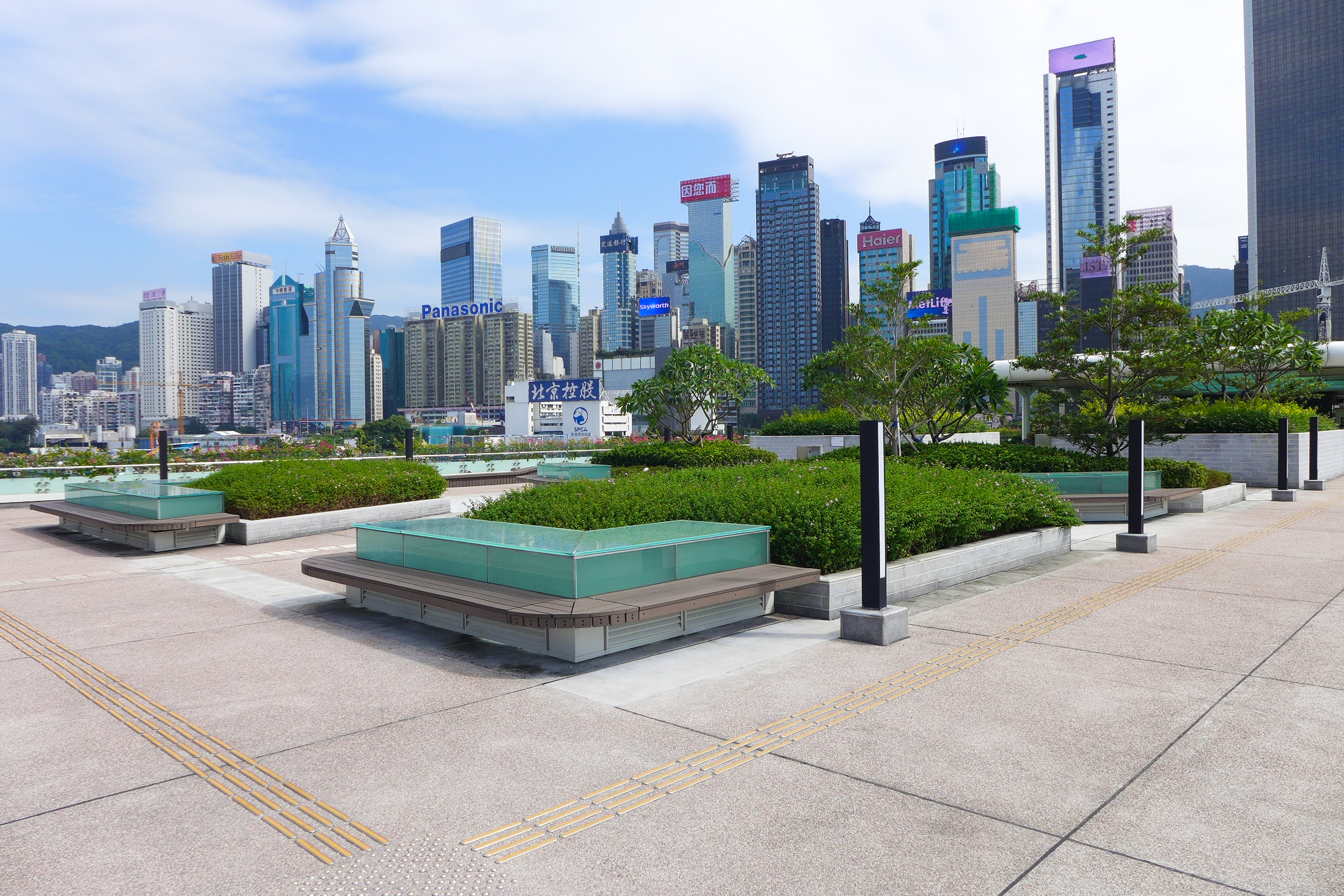 Wan Chai Pier Roof Garden